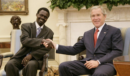 Cropped version of original. Original caption states "President George W. Bush welcomes Sudanese Liberation Movement leader Minni Minnawi to the Oval Office Tuesday, July 25, 2006, in Washington, D.C., meeting to discuss the Darfur region of western Sudan."